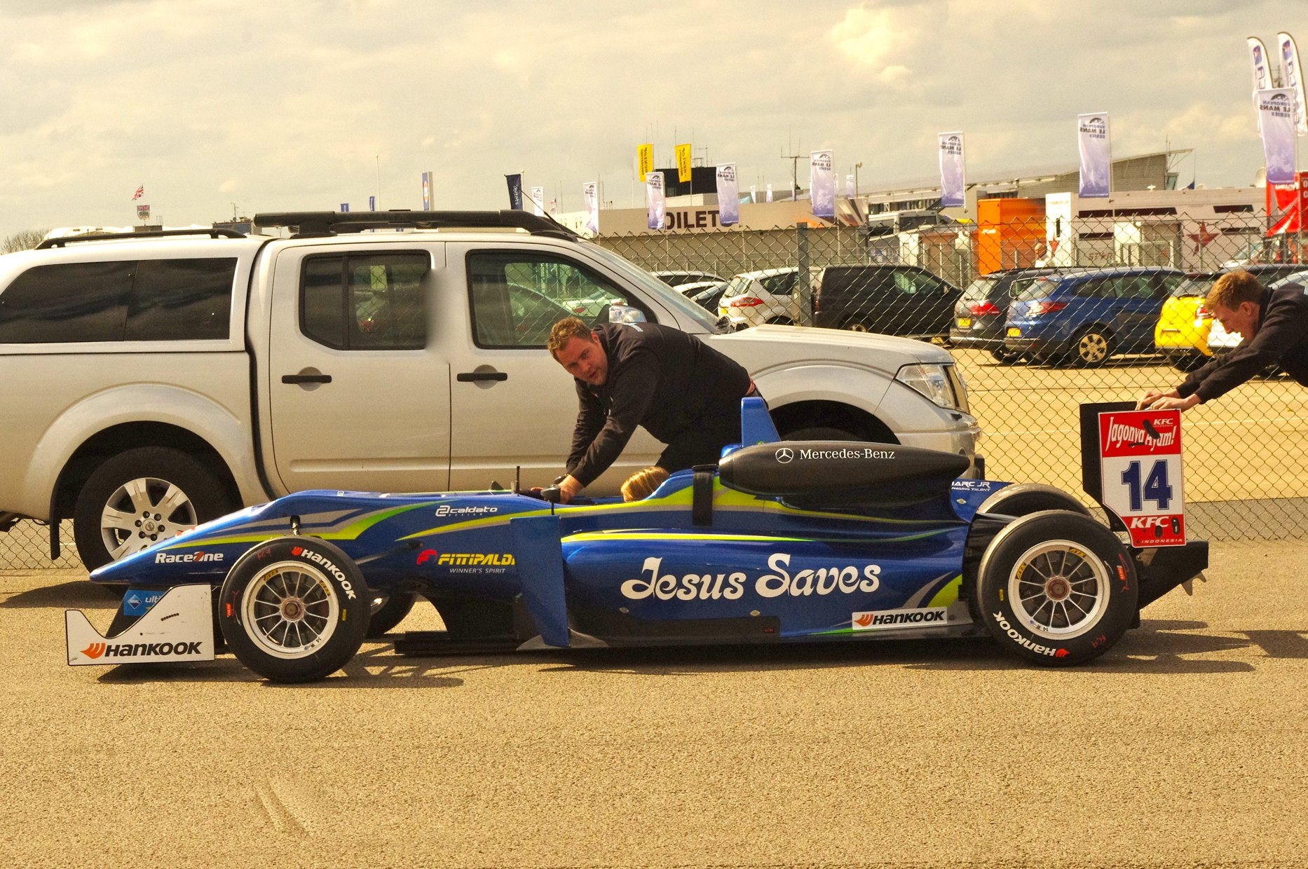 2014 FIA Formula 3 European Championship, Silverstone Circuit.